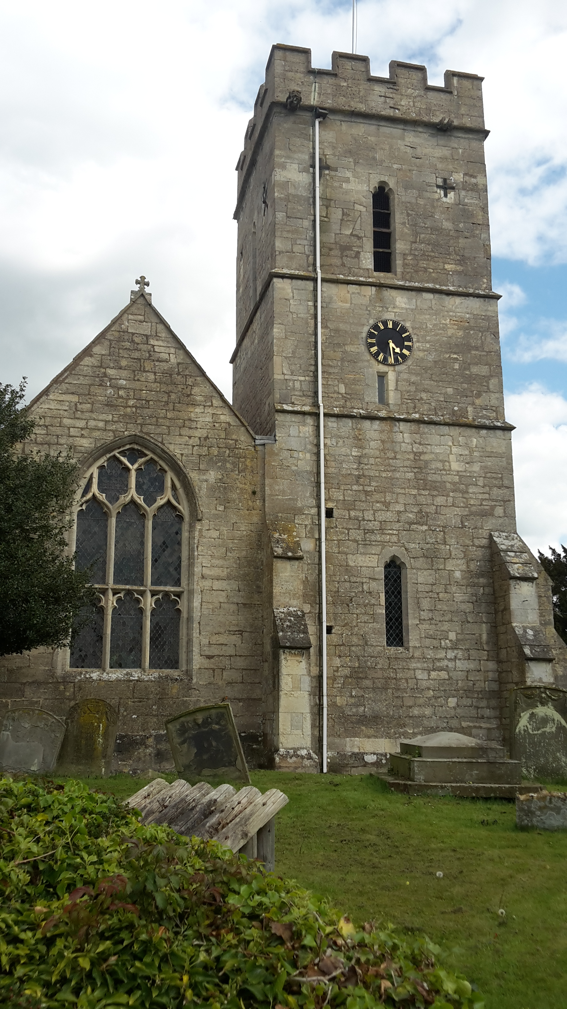 Photo of St Nicholas Chuch, Hardwicke